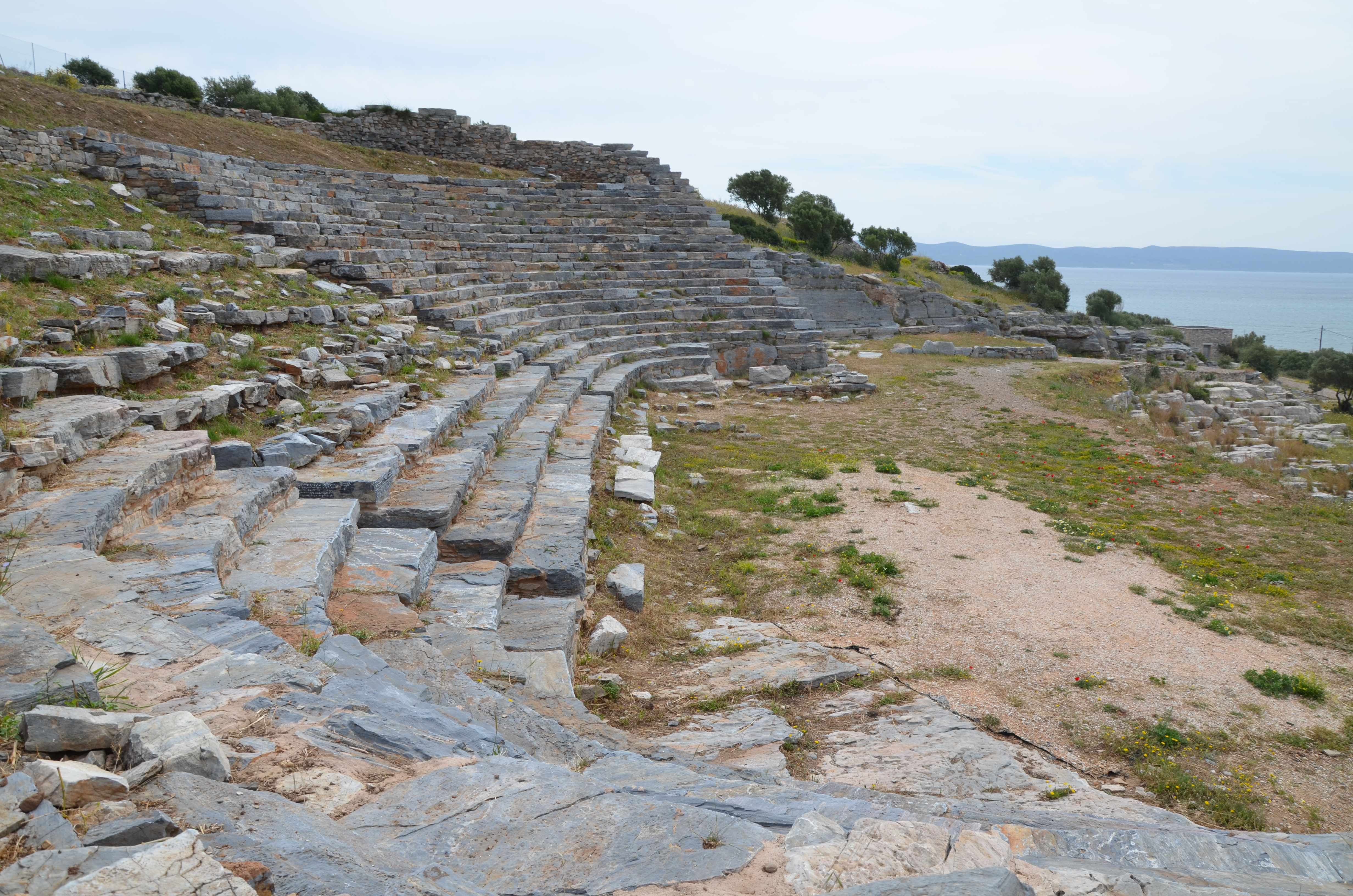 The Theatre at Thoricus, built ca. 525-480 BC presenting a unique elongated layout, Attica, Greece